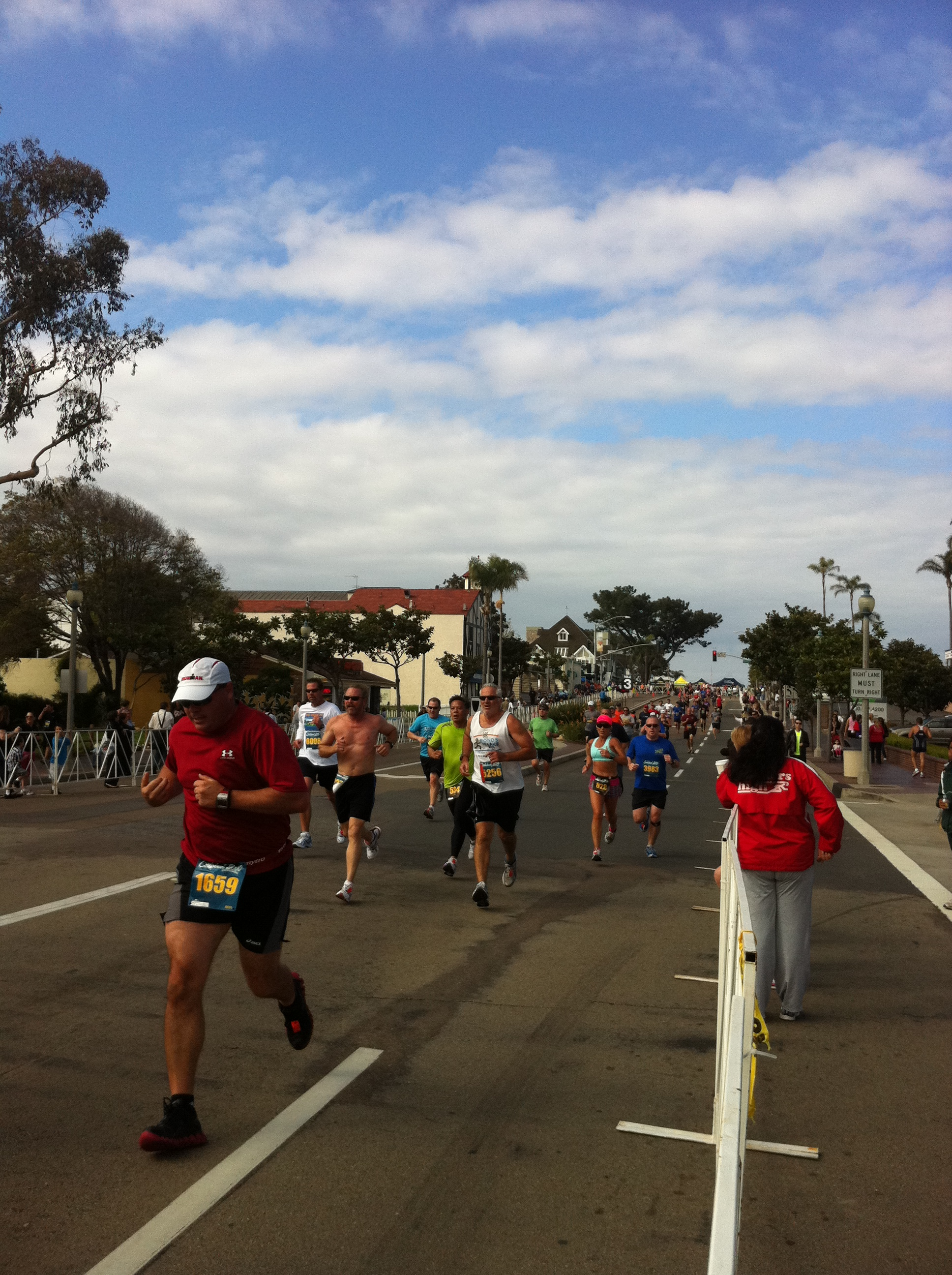 Carlsbad 5000 road race in 2011, fun runners on Carlsbad Boulevard